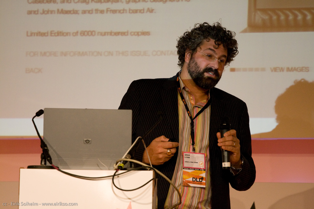 Greg Lynn "It's more intimate to design a fork than a church."